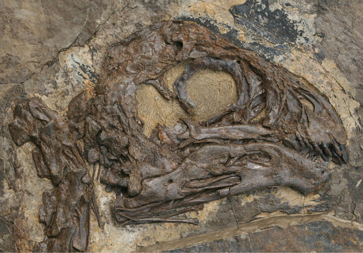 Similicaudipteryx yixianensis (STM22-6).